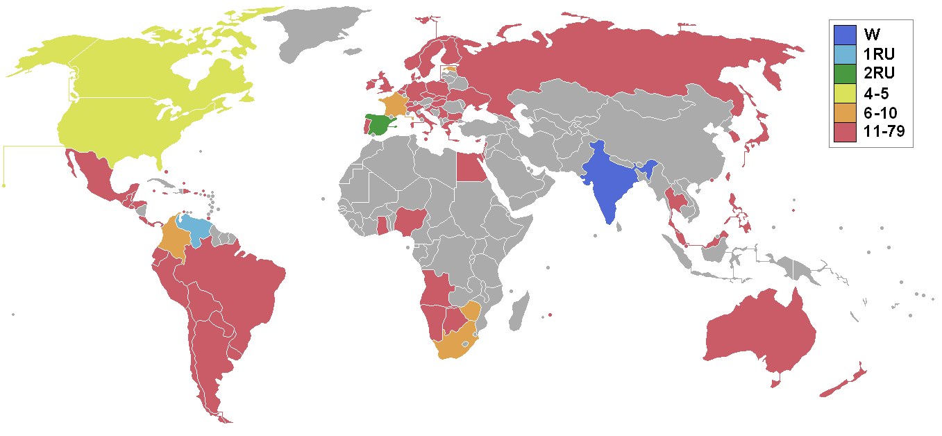 image created by Joey80